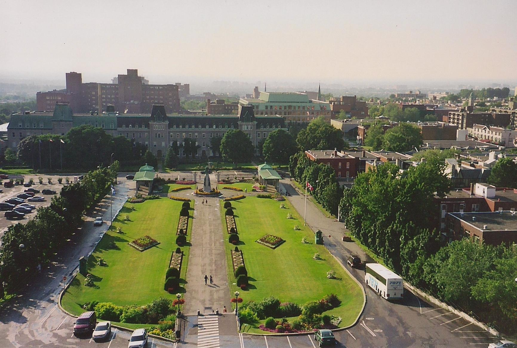 A view of the city from Saint Joseph's Oratory in Montréal, Québec (Canada).